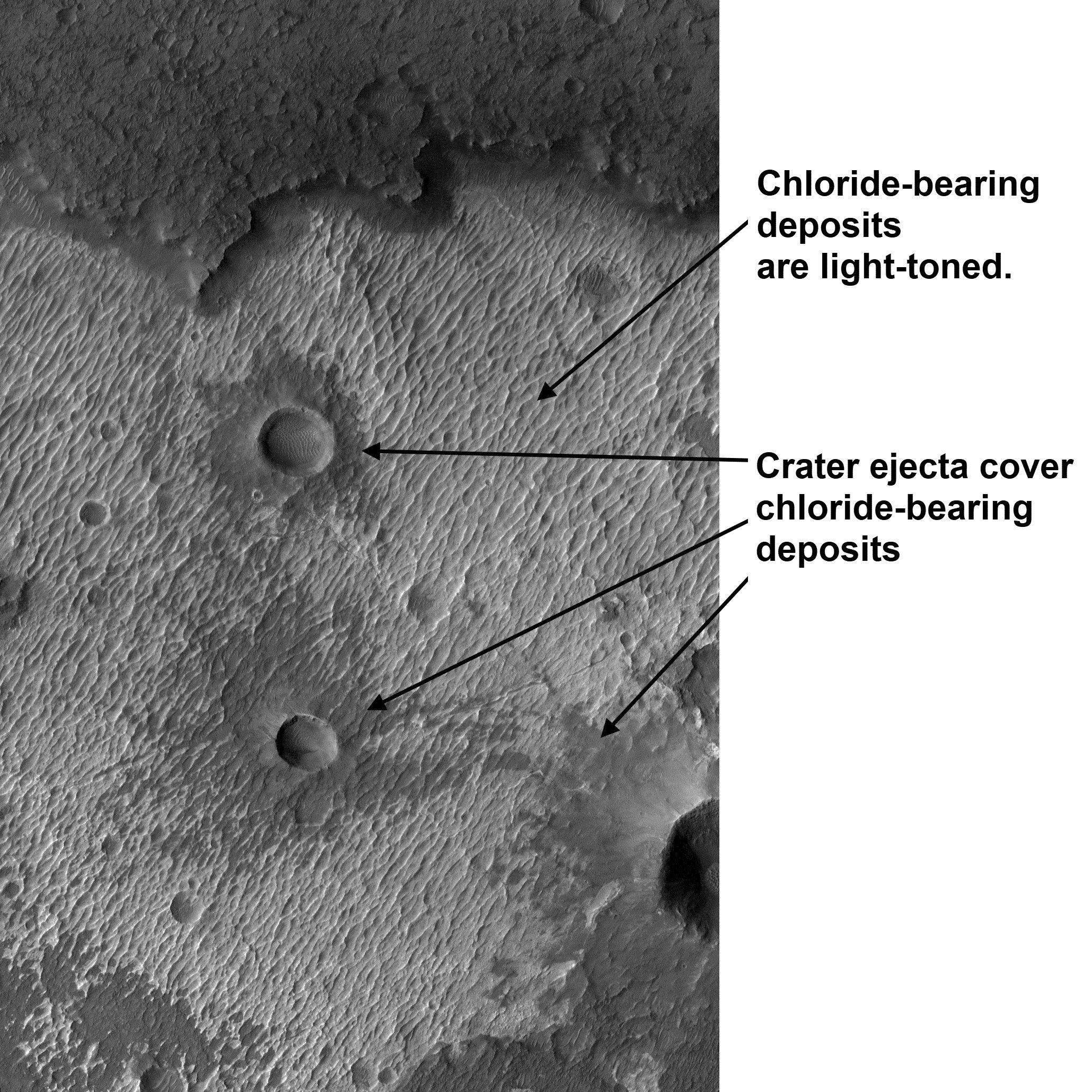 Chloride deposits on Mars, as seen by HiRISE. The location is 38.8 degrees south latitude and 221 degrees east longitude. Image was taken by the Mars Reconnaissance Orbiter's HiRISE. The HiRISE camera was built by Ball Aerospace and Technology orporation and is operated by the University of Arizona. Image courtesy NASA/JPL/University of Arizona.